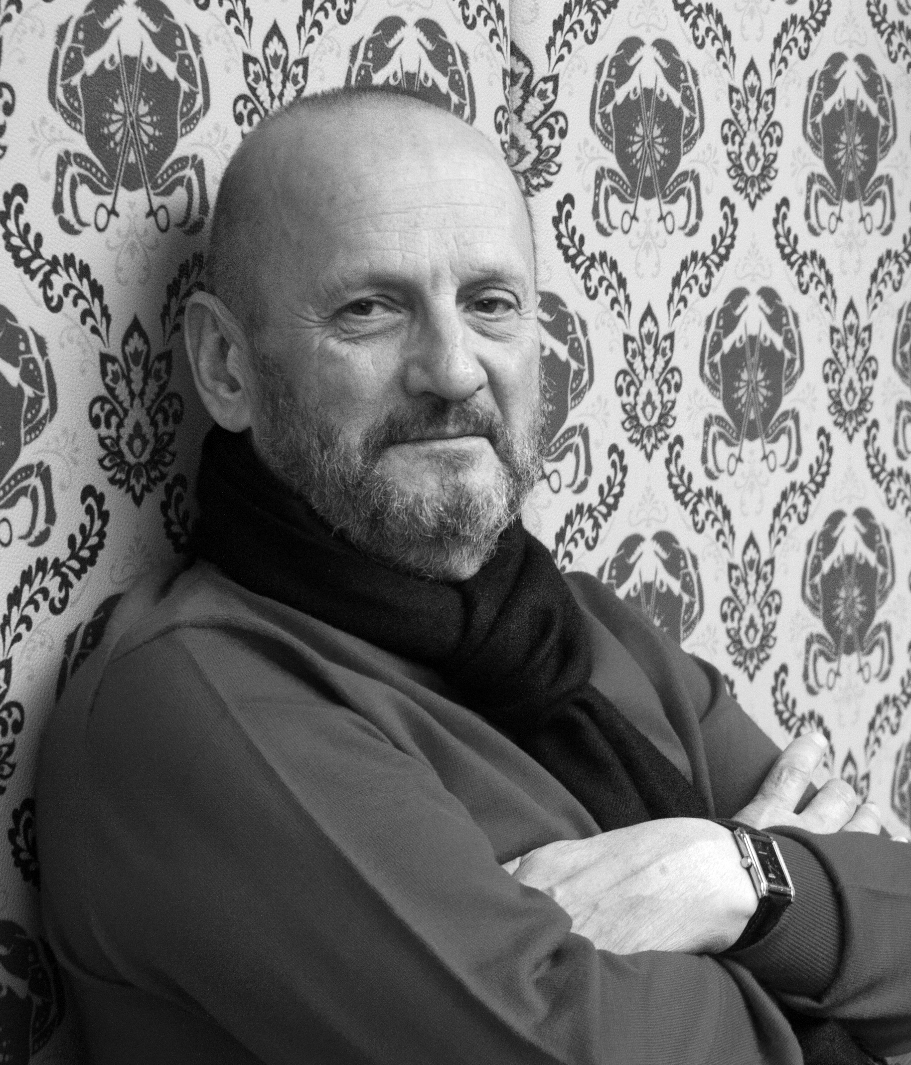 Gunārs Lūsis, Graphic designers and artists from Latvia. Born 18.December 1950 in Riga, Latvia.